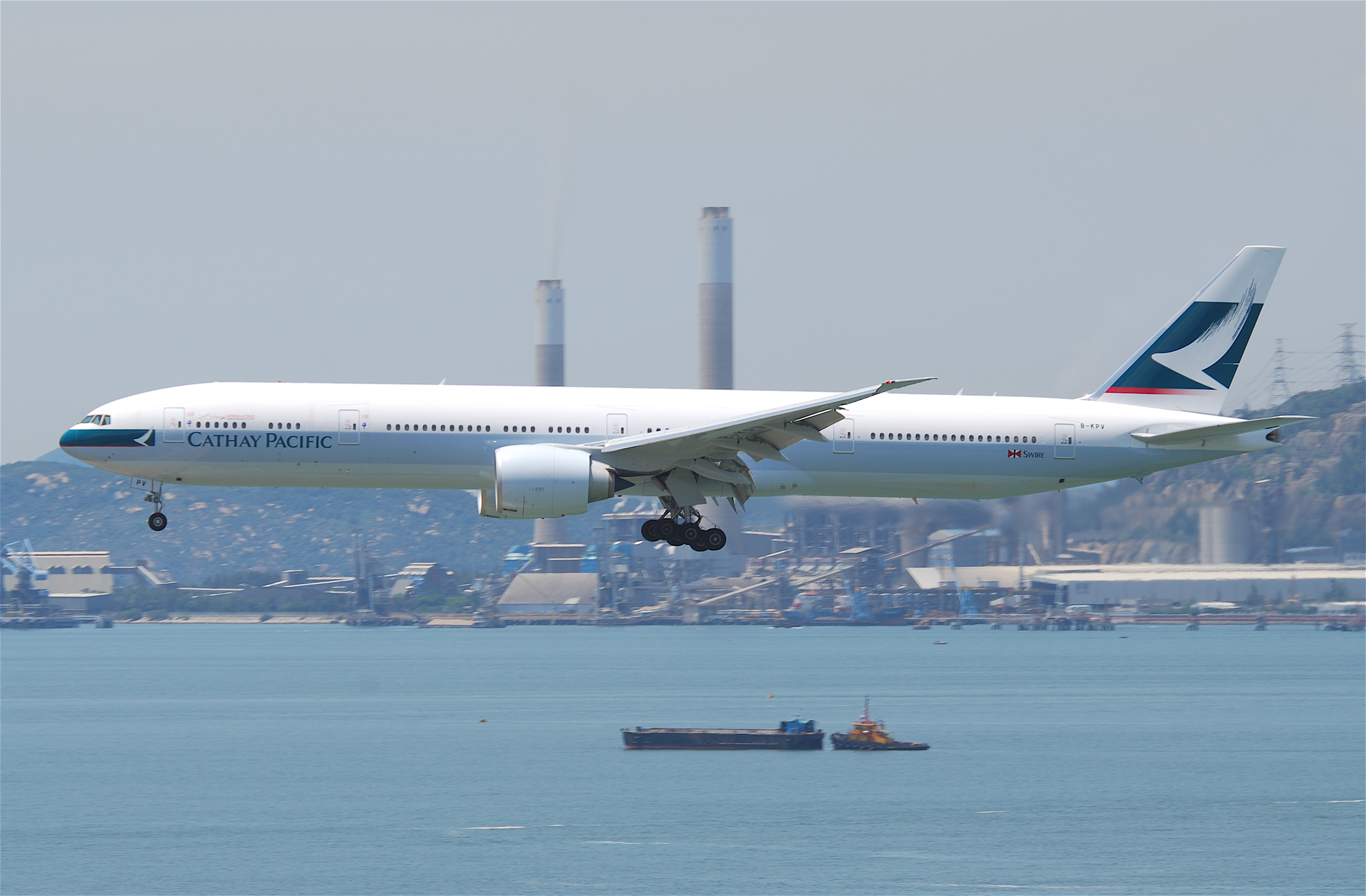 Cathay Pacific Boeing 777-300ER; B-KPV@HKG;04.08.2011/615na